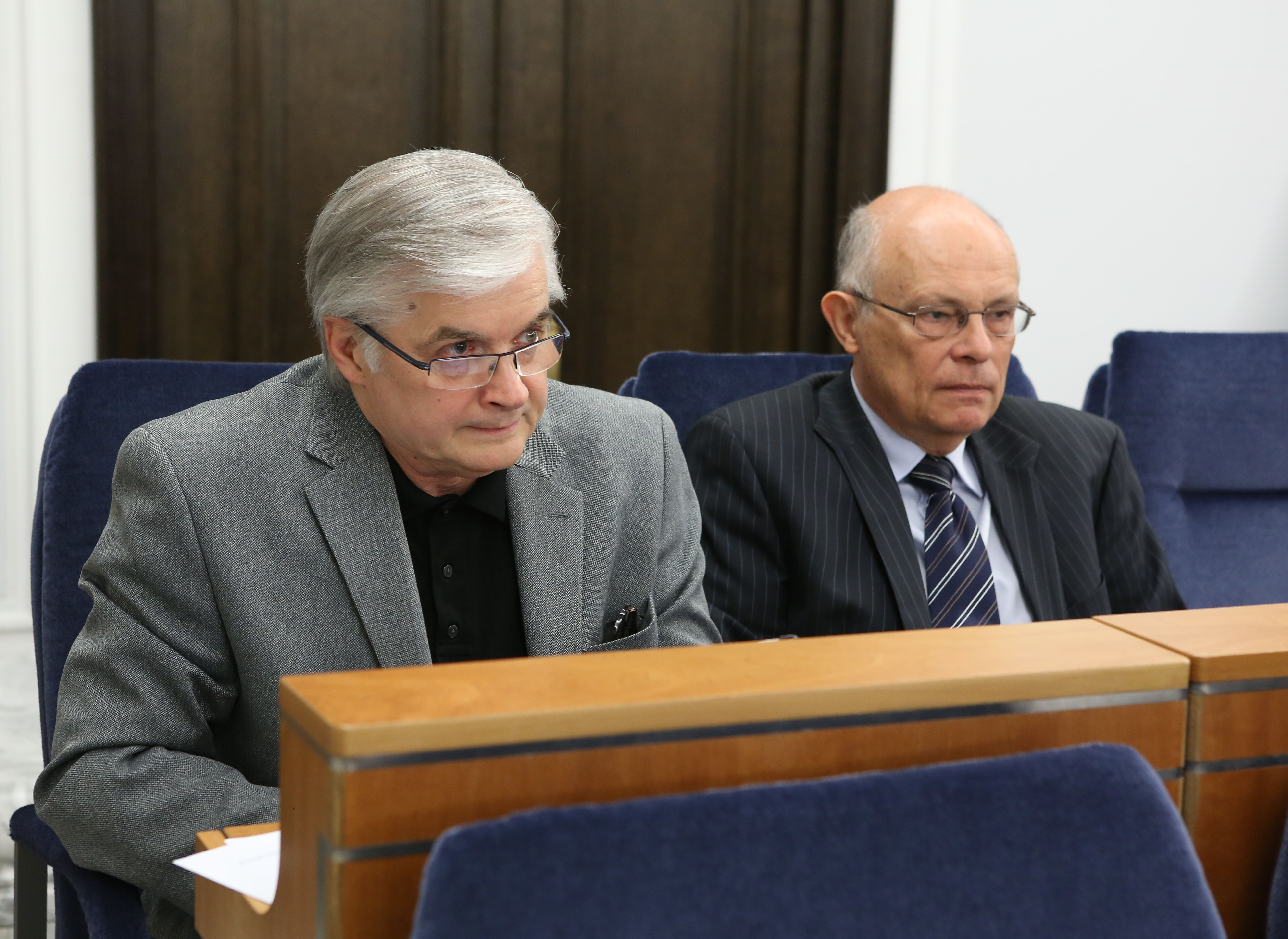 Senators Włodzimierz Cimoszewicz i Marek Borowski during 78th sitting of the Polish Senate